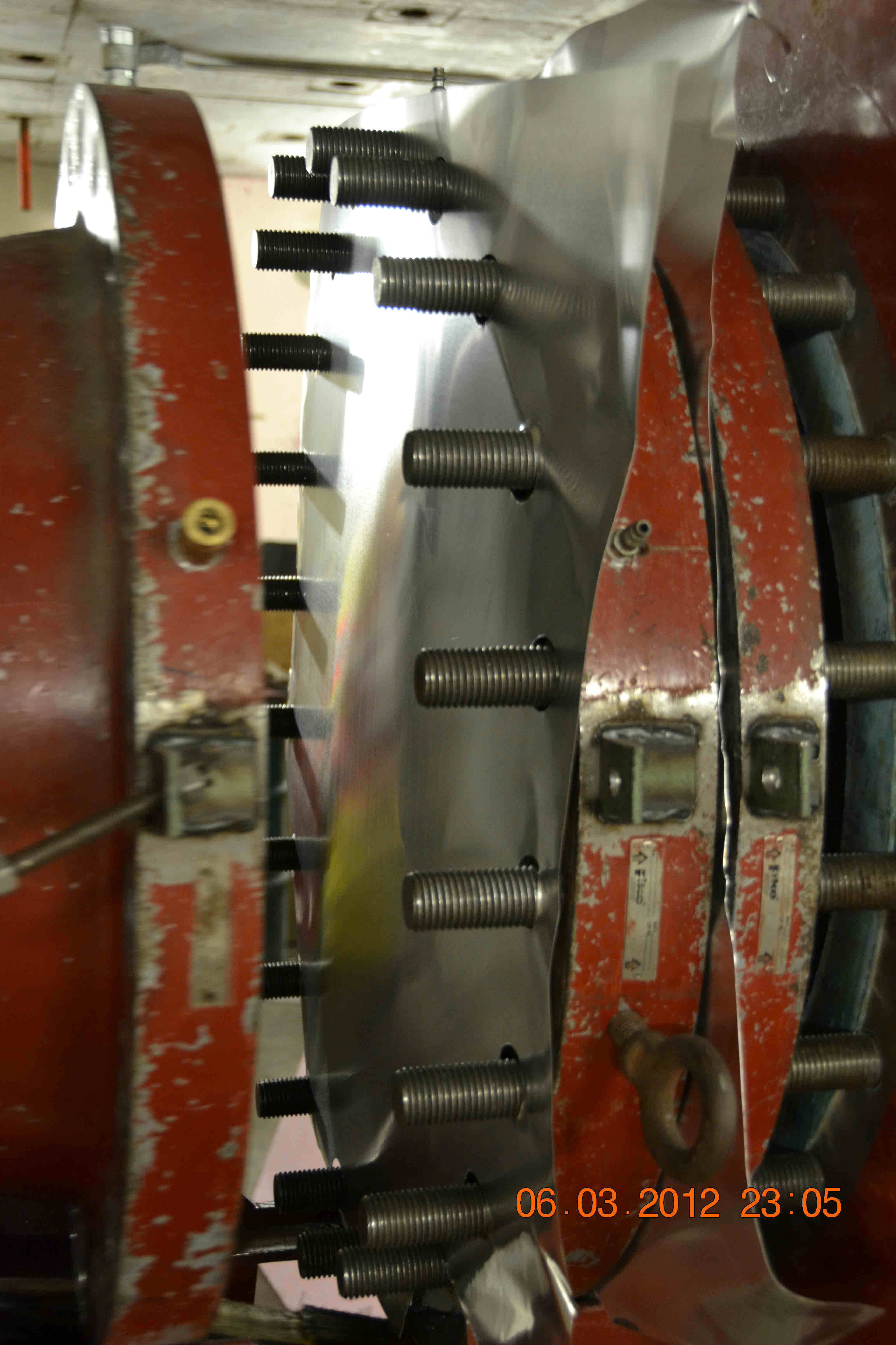 Shock Tube for explosion testing of building components – This is an R/D tool that is acceptable for seeing the effects of shock waves without fire, heat or shrapnel.